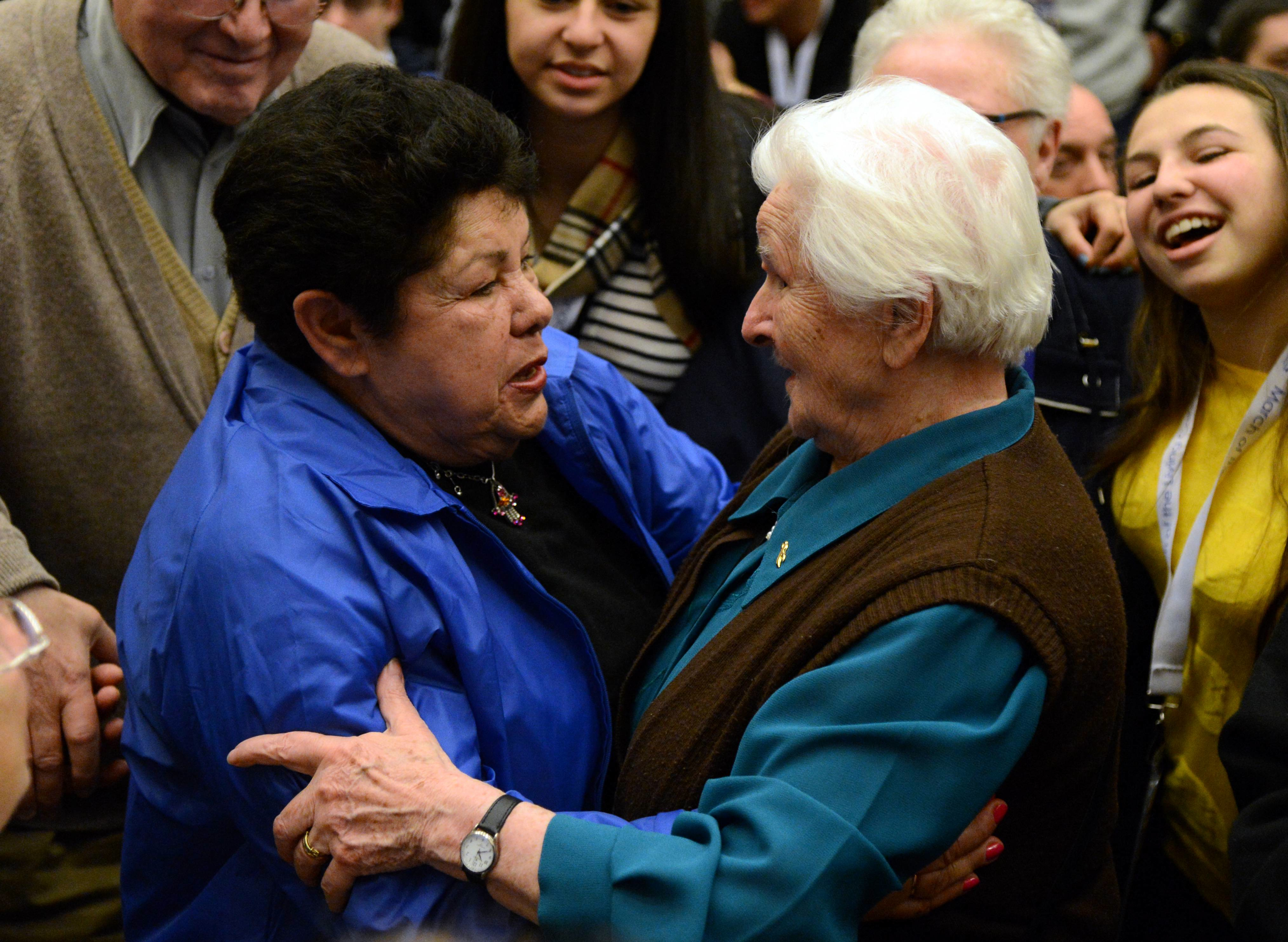 Czeslawa Zak embraces Miriam Zakrojczyka